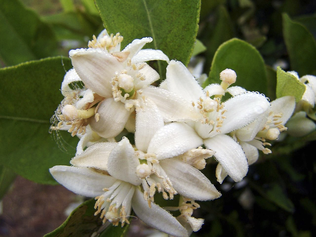 Image title: Citrus blossoms covered in dew Image from Public domain images website